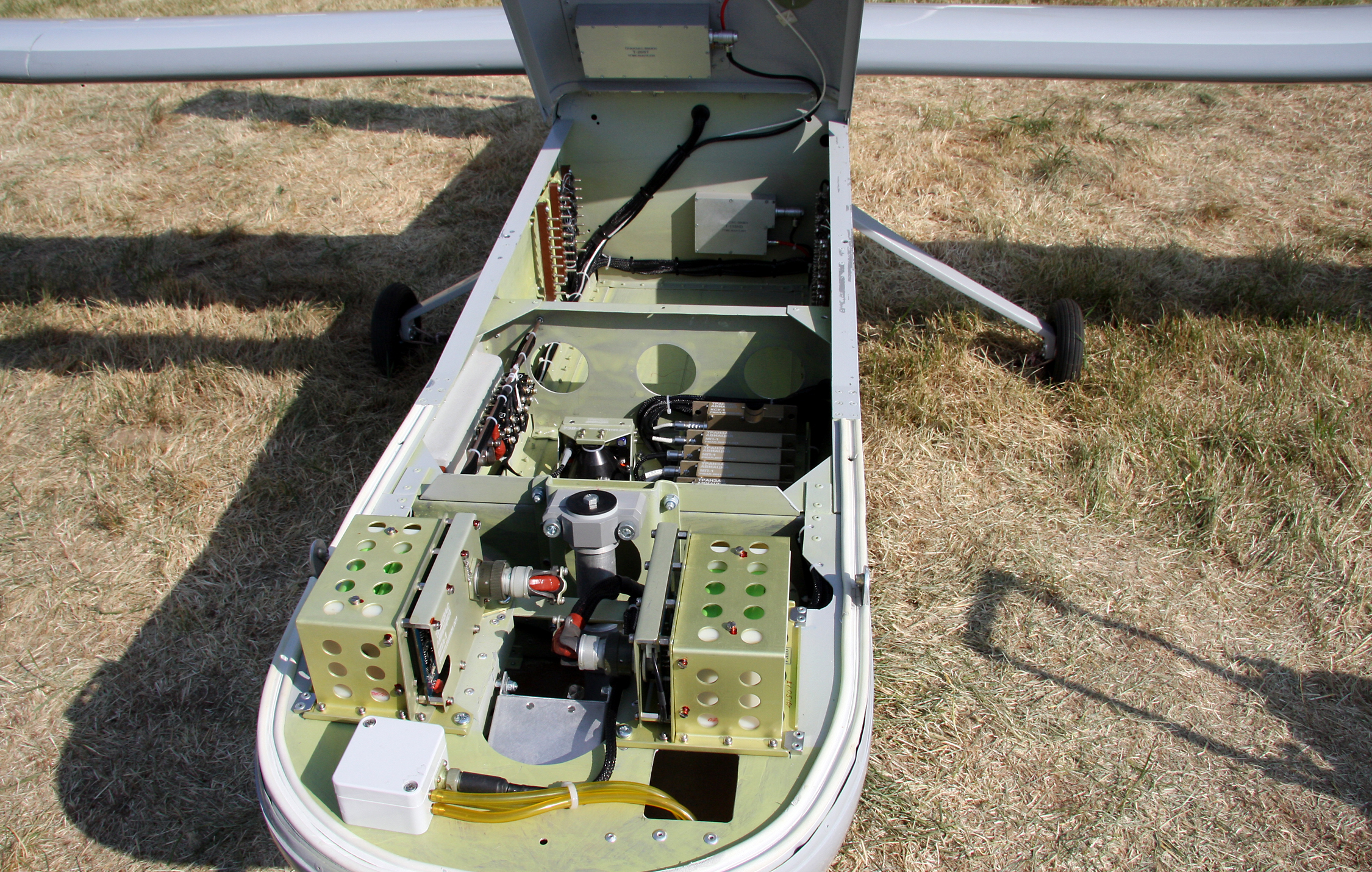 Dozor-100 at Engineering technologies international forum -2010